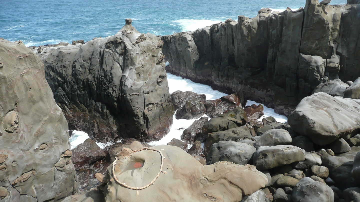 Udo Jingu Reiseki - kameishi (Nichinan City, Miyazaki, Japan)